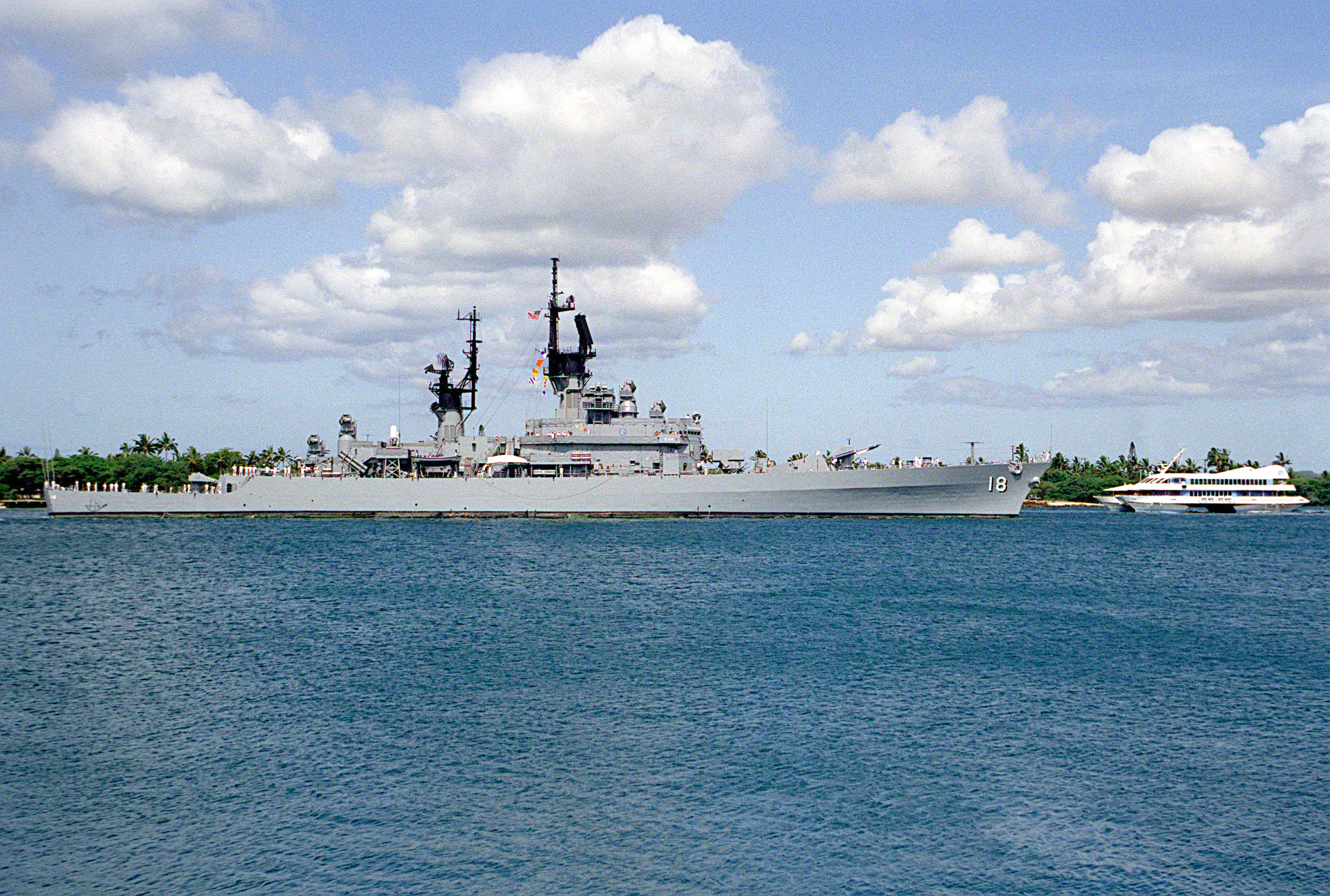 The U.S. Navy guided missile cruiser USS Worden (CG-18) arrives at Pearl Harbor, Hawaii (USA), on 1 June 1991.